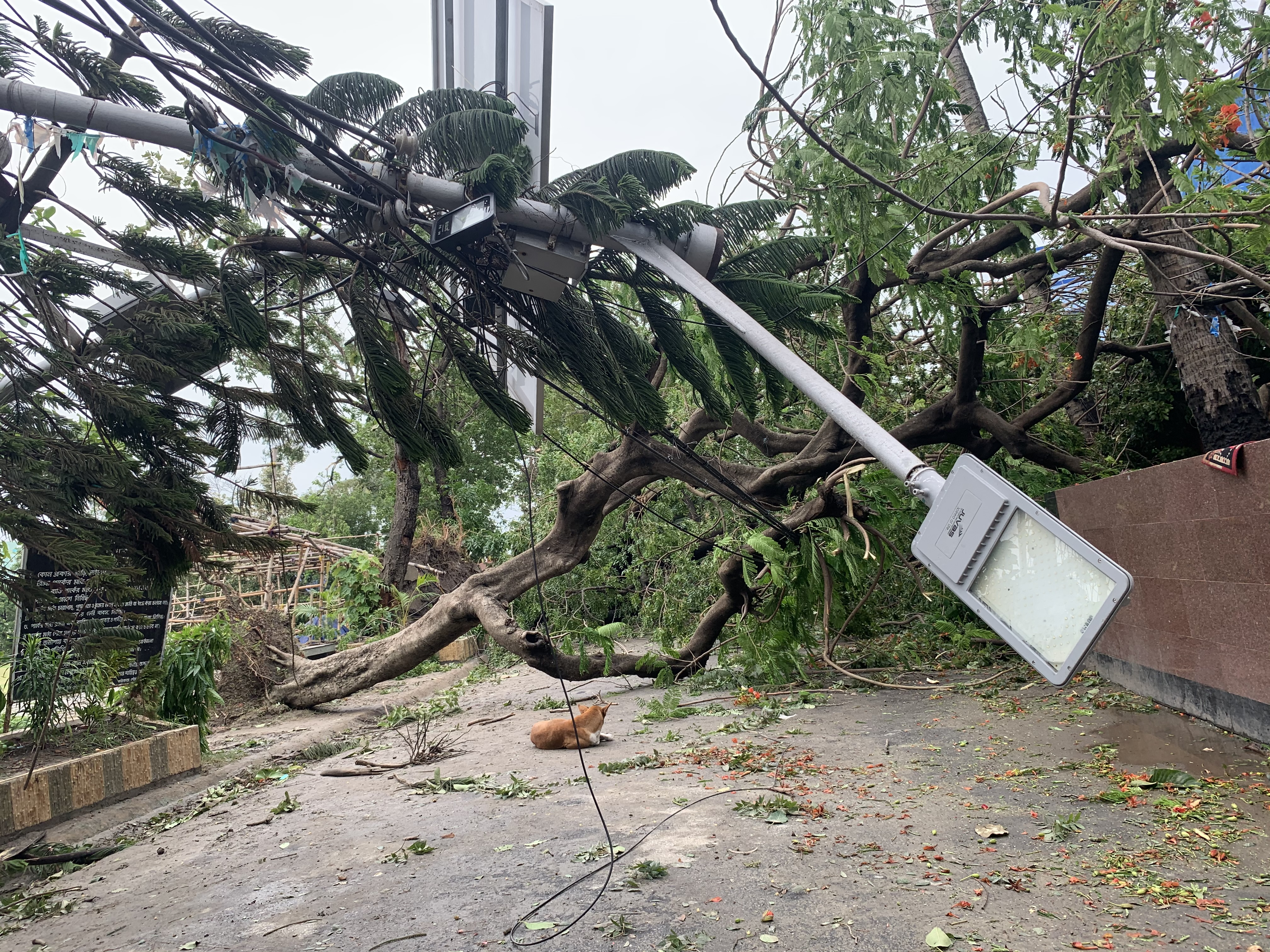 Post Cyclone Amphan situation of Deshbandhu park in Kolkata. Cyclone Amphan hit West Bengal during Corona crisis in Kolkata, West Bengal, India.